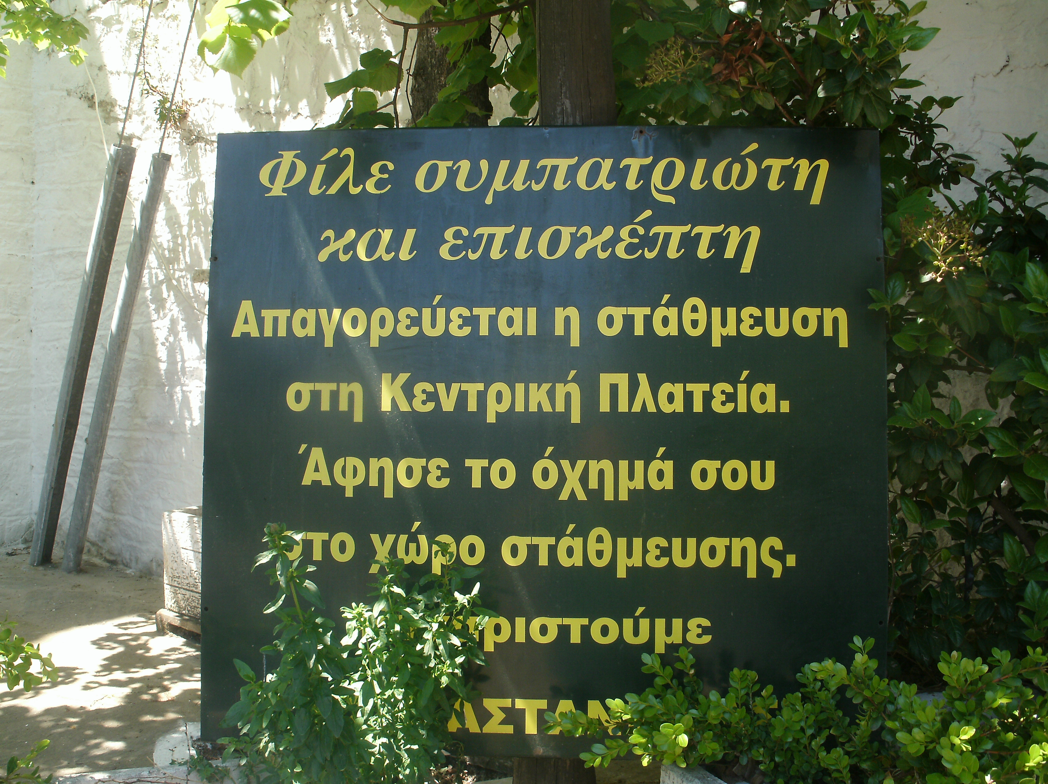 A sign asking visitors to please park outside the village.